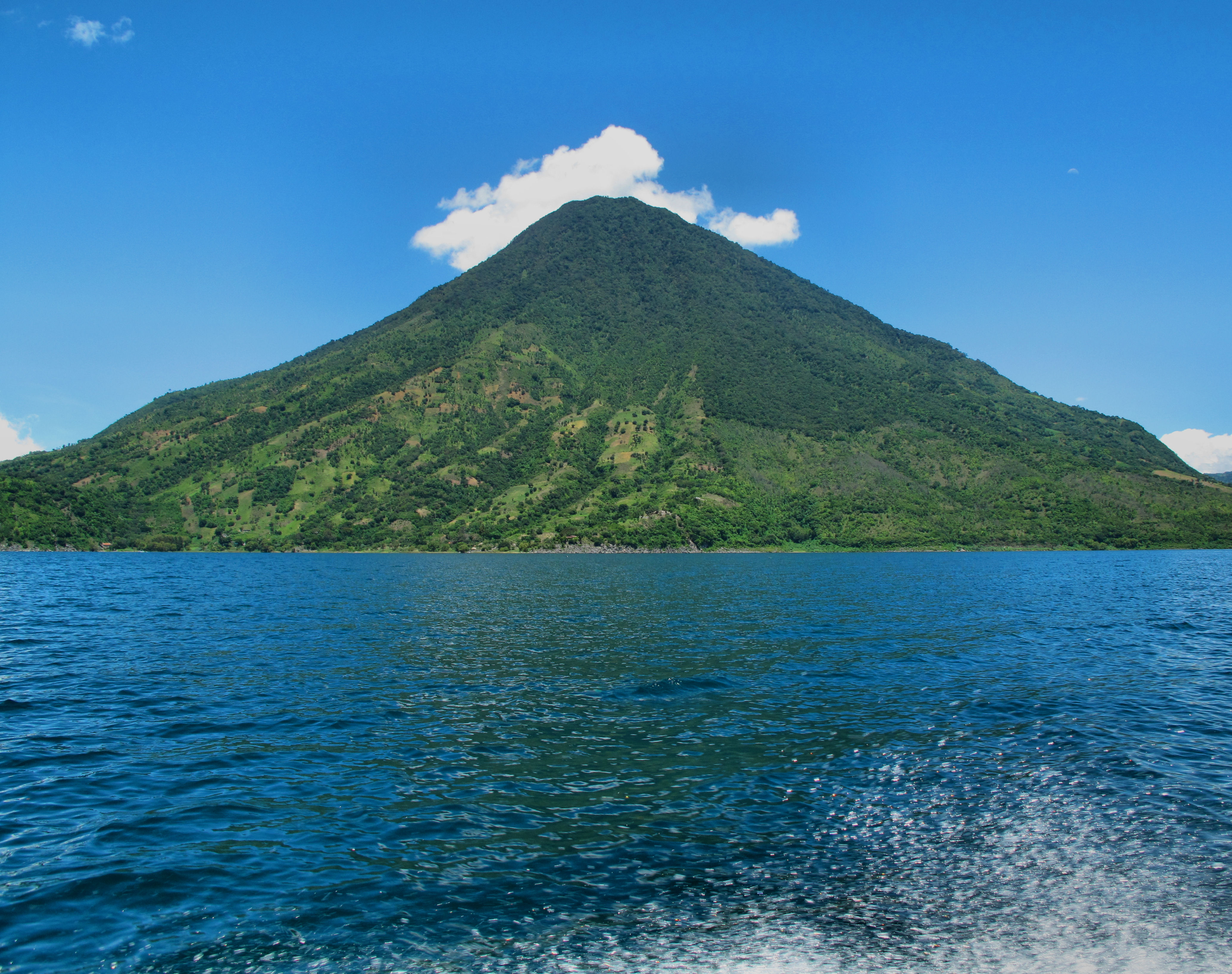 Volcán San Pedro as seen from the East.